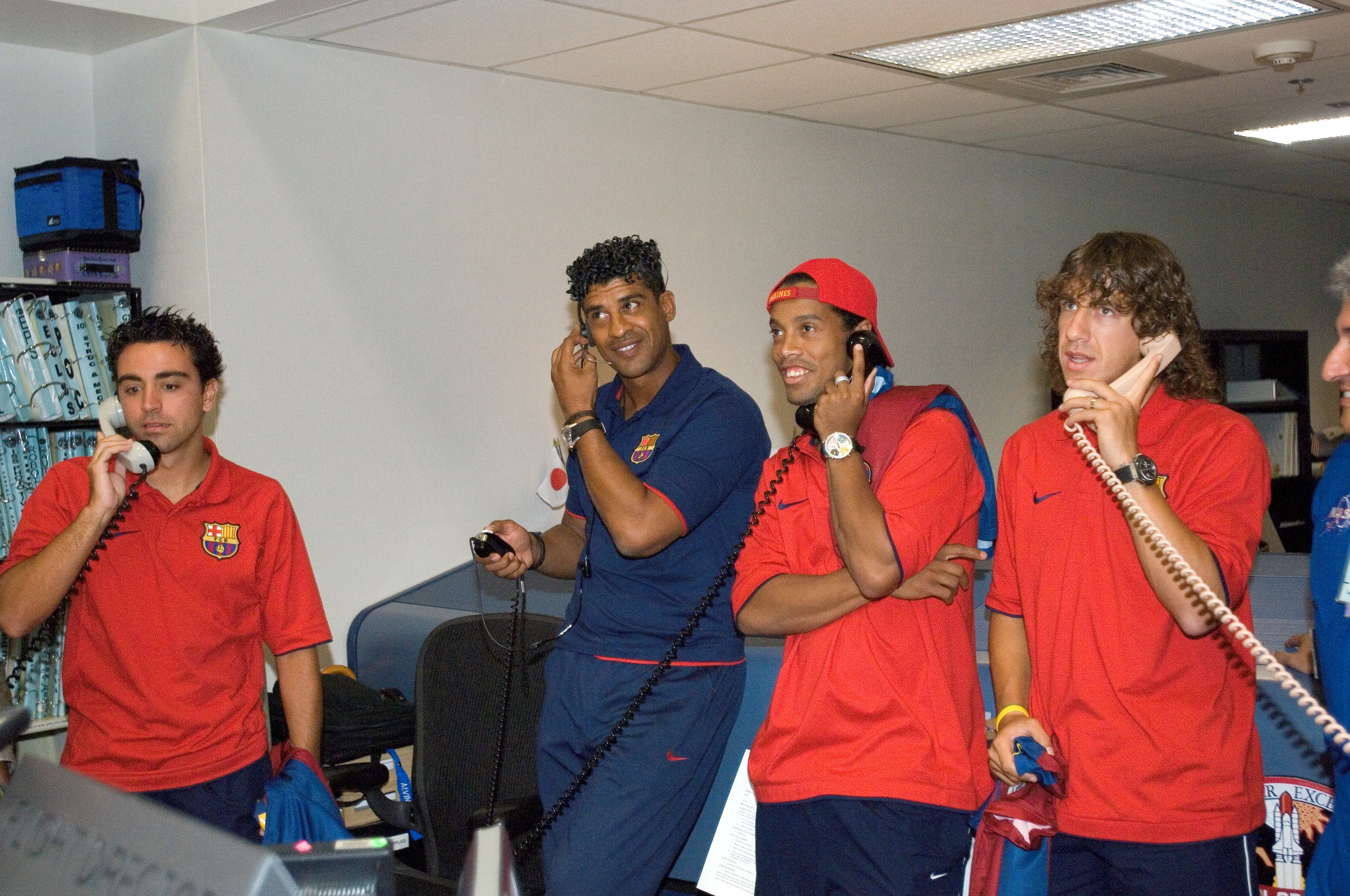 JSC2006-E-33425 (8 August 2006) --- Members of the European champion soccer team, FC Barcelona, made a special call at 4:10 p.m. EDT, Tuesday, Aug. 8 to the International Space Station crew. During a visit to NASA's Johnson Space Center, Houston, the team stopped in the Station (Blue) Flight Control Room in Mission Control to make the call. The FC Barcelona team is scheduled to play an Aug. 9 exhibition game against Club America, one of Mexico's top club teams. Players, coaches and guests of the team visited mission control rooms used for the station and shuttle, and the historic control room used during Apollo missions and lunar landings. They also visited training facilities including full-scale mockups of the station and shuttle.